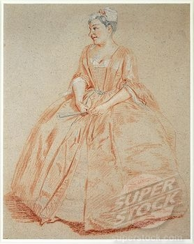 Portrait of a lady said to be the singer Francesca Cuzzoni; whole-length, slightly to left, her head nearly in profile to left, seated with her hands in her lap holding a fan, her skirts held out by panniers (a frame) Red chalk and graphite, heightened with white, on greyish-buff paper. Drawing by French/British drawer Philippe Mercier (1689-1760)